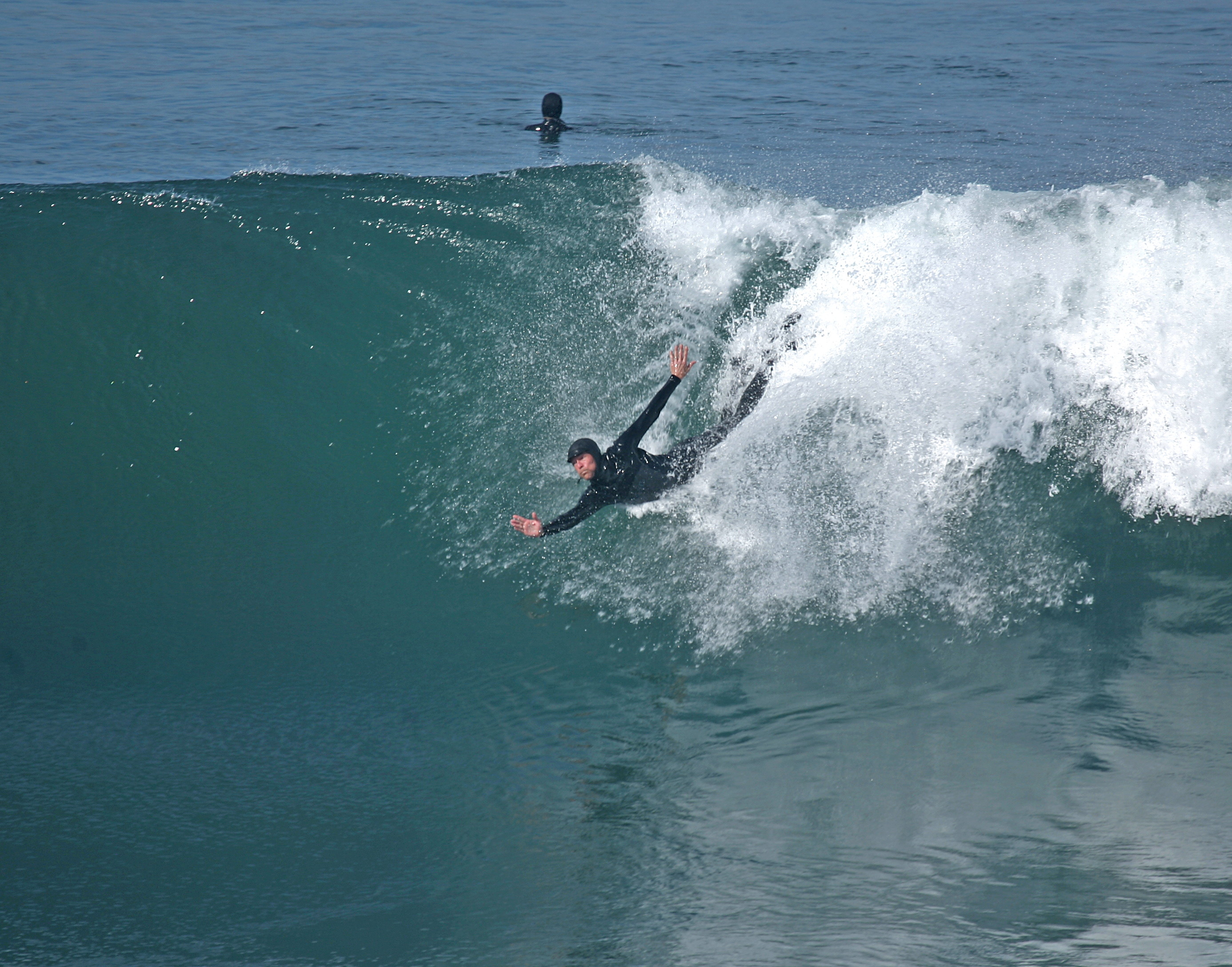 Bodysurfing in San Diego, California, January 2008